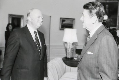 Elmer B. Staats and Ronald Reagan in Oval Office